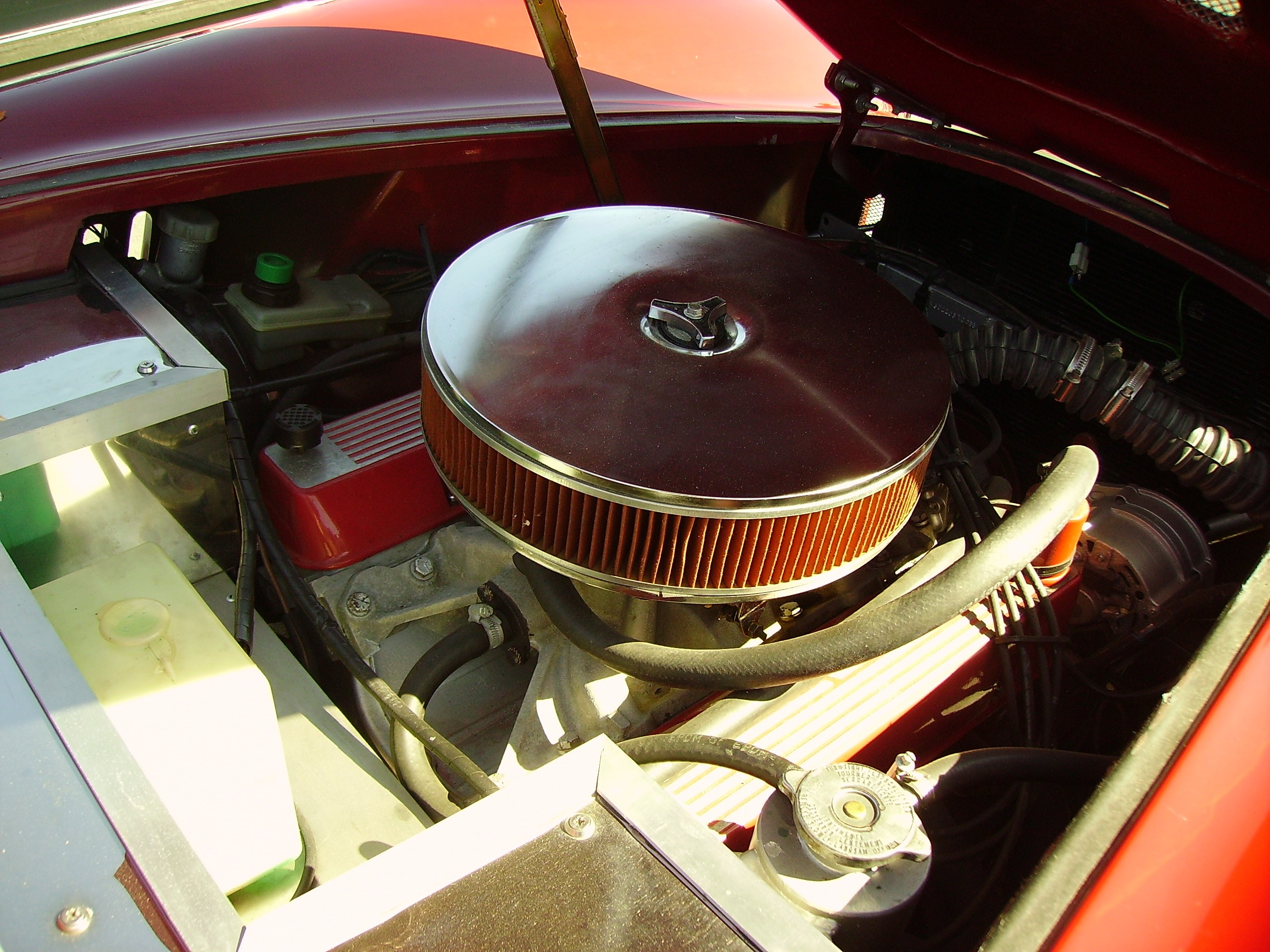 V8 american automobile engine. Hose made in EPDM.